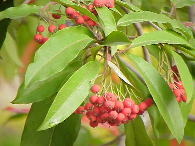 Species: Stranvaesia davidiana Family: Rosaceae Image No. 1